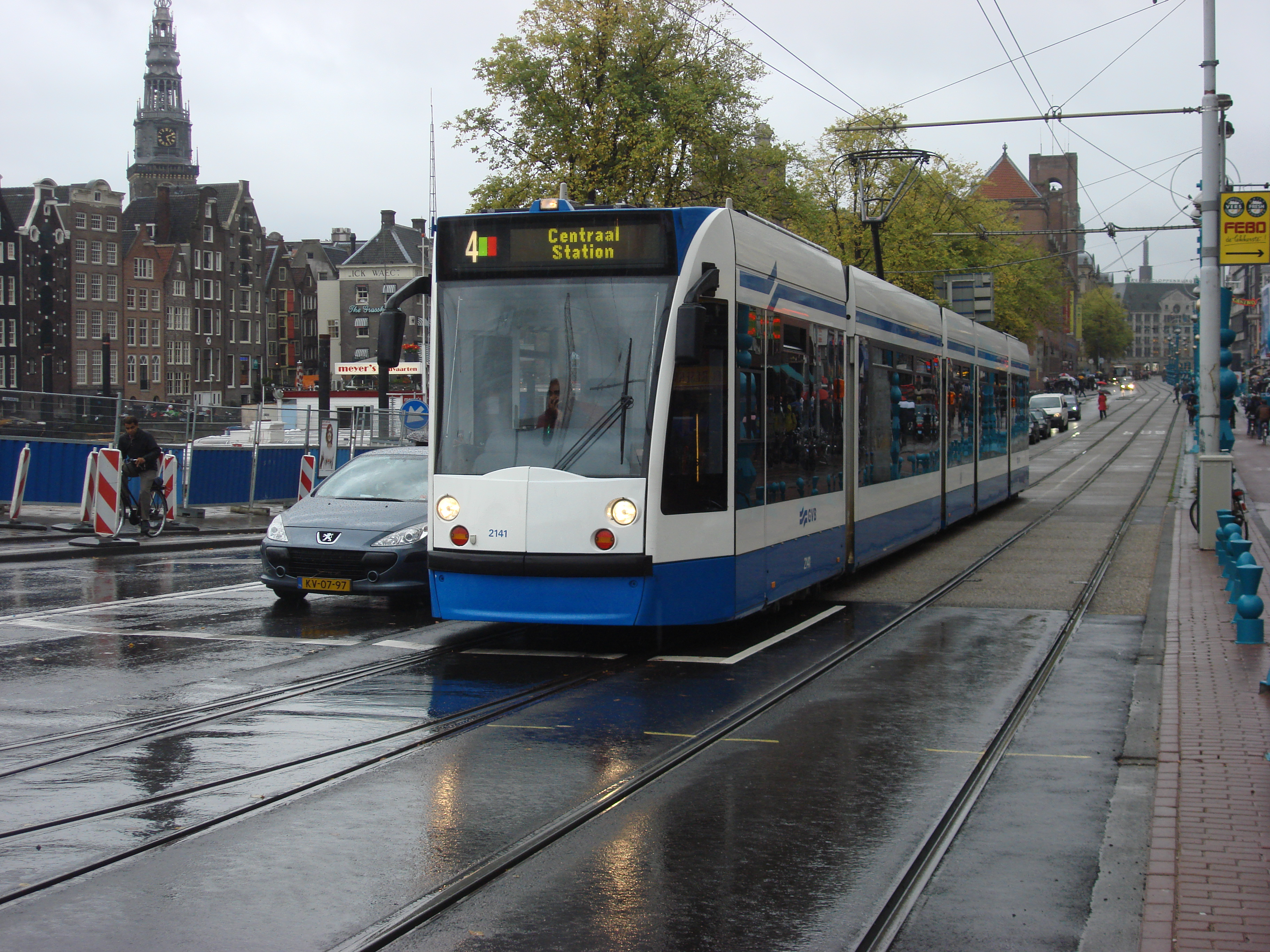 Gemeente Vervoerbedrijf (GVB) tram 2141